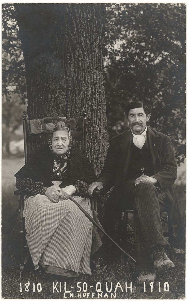 The Last of the Miamis 1810–1910 Kiilhsoohkwa (Kil-so-quah) and son, 1910. Near Wabash; Wabash; Wabash County; Indiana; USA. Lorenzo Milton Huffman, Mark Raymond Harrington, George G. Heye. Smithsonian Institution National Museum of the American Indian.